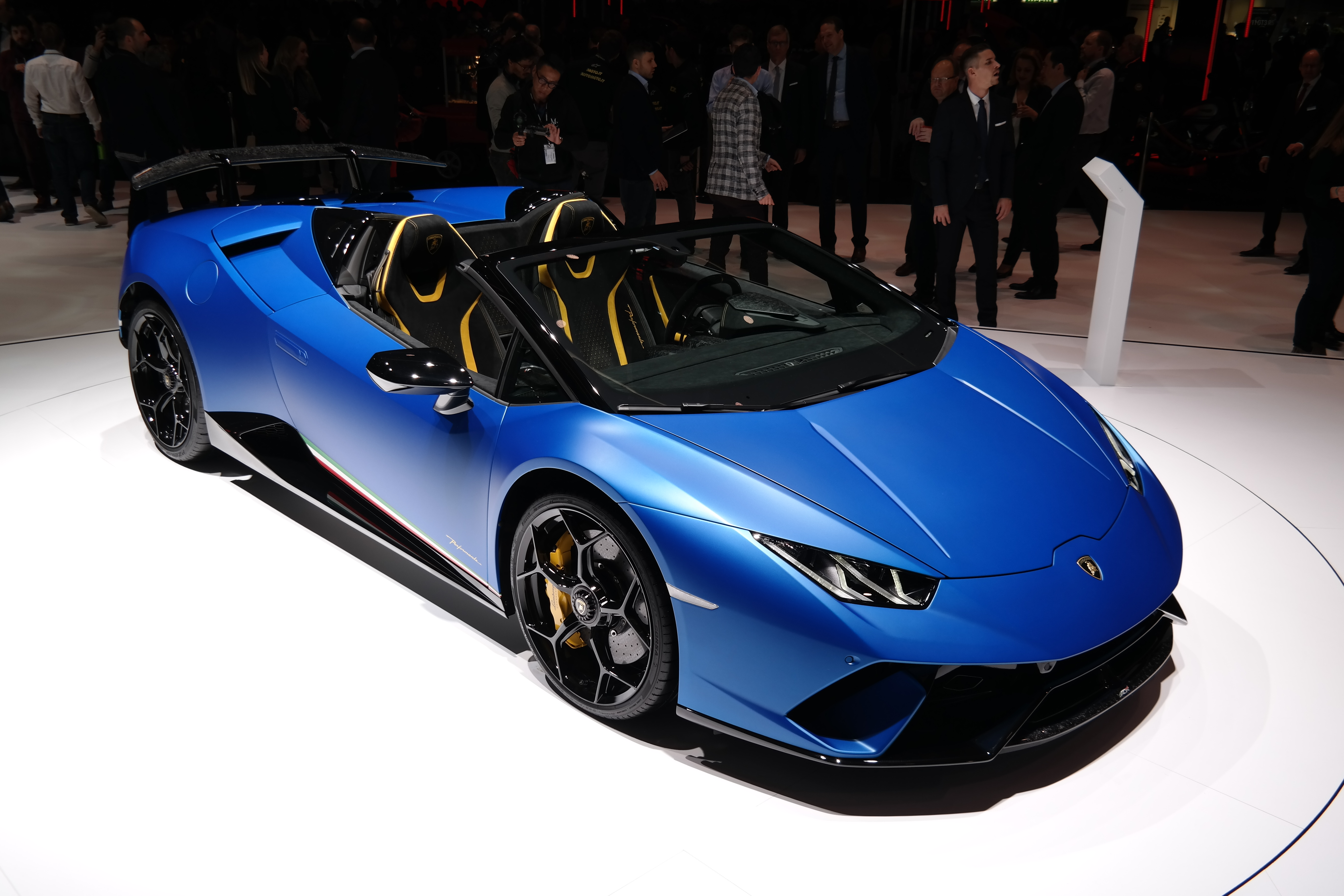 Geneva Motor Show 2018 (photo taken on the first press day)